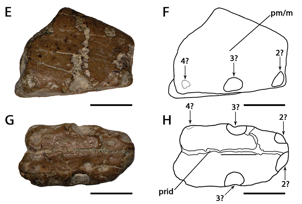 E–H ‘Ornithocheirus’ platystomus, holotype CAMSM B54835 (Albian, Cambridge Greensand), anterior part of the rostrum E right lateral view F respective line drawing G ventral view H respective line drawing. Abbreviations: m – maxillae, pm – premaxillae, prid – palatal ridge. Arrows and numbers indicate alveoli or teeth and their respective position. Scale bar = 10 mm.